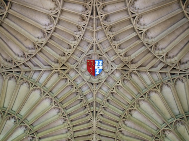 Corpus Christi College, Cambridge. Arms of a Dean of Ely (Gules, three keys erect or impaling personal arms of the dean in question. Possibly John Spencer (1630–1693), Master of Corpus Christi College, Cambridge and Dean of Ely. Wikipedia, re Spencer family: "The Spencers were first granted a coat of arms in 1504, "Azure a fess Ermine between 6 sea-mews’ heads erased Argent," but this bears no resemblance to the arms used by the family (later Earl Spencer) after c. 1595, which were derived from the Despencer arms, "Quarterly Argent and Gules in the second and third quarters a Fret Or overall on a Bend Sable three Escallops of the first"". These arms only show three "sea-mews’ heads erased argent".